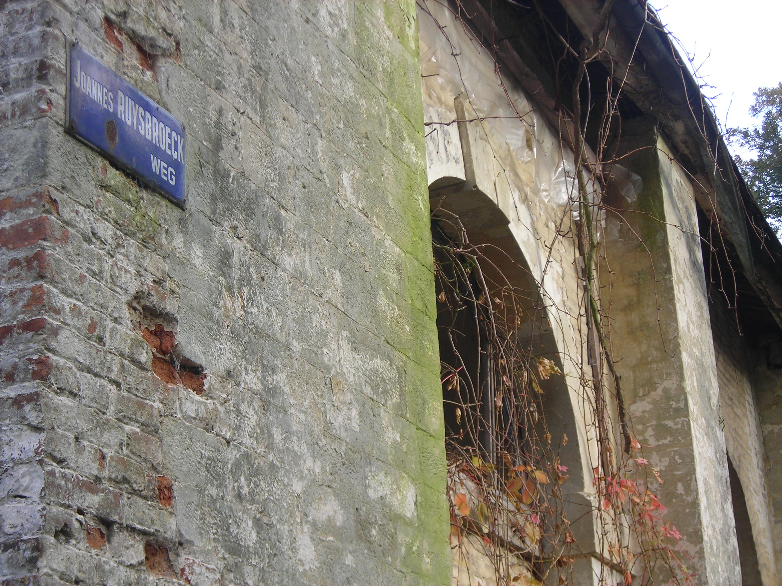 Ruysbroeck Way sign on ruins of his monastery at Groenendaal